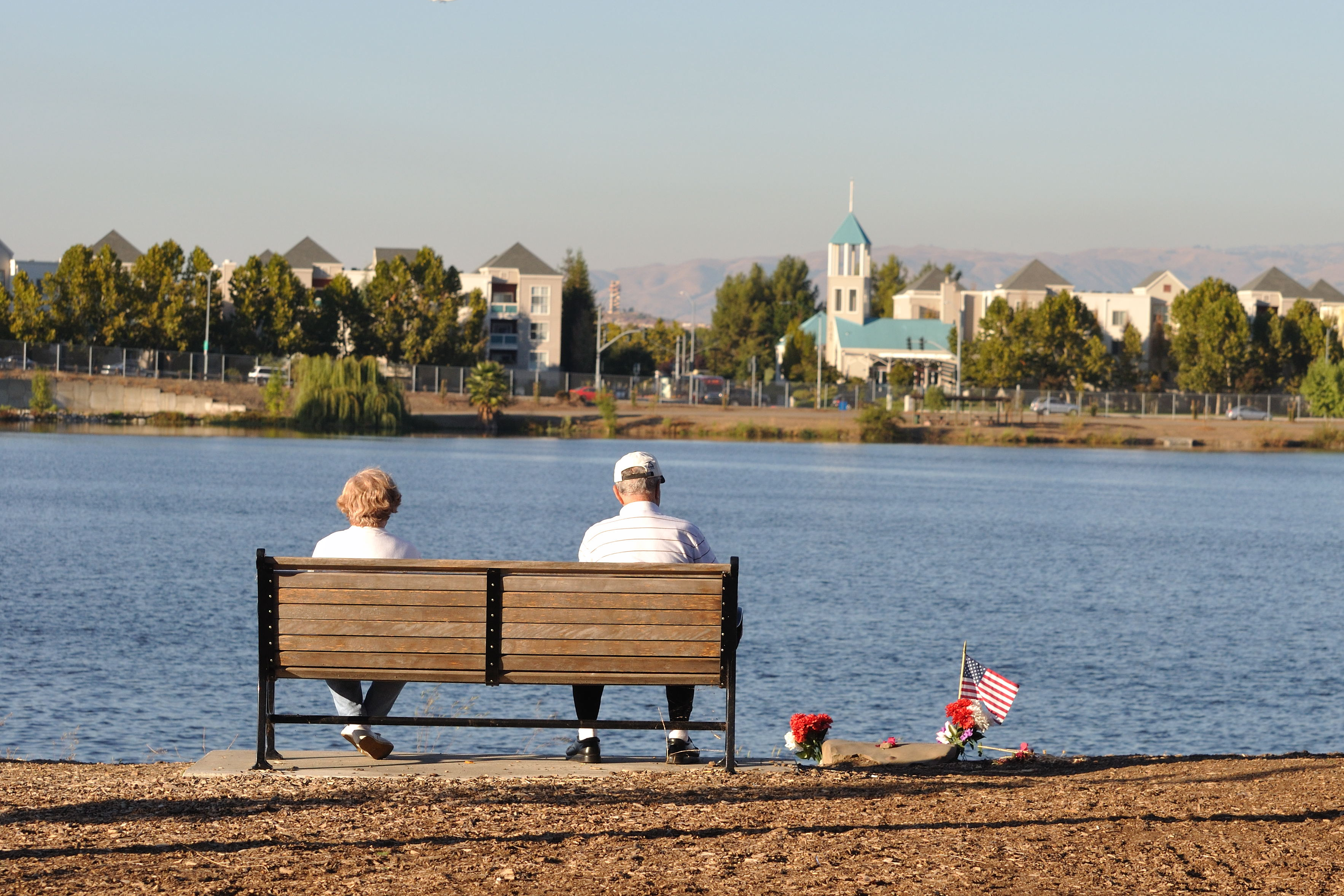 A couple enjoying the view of Almaden Lake